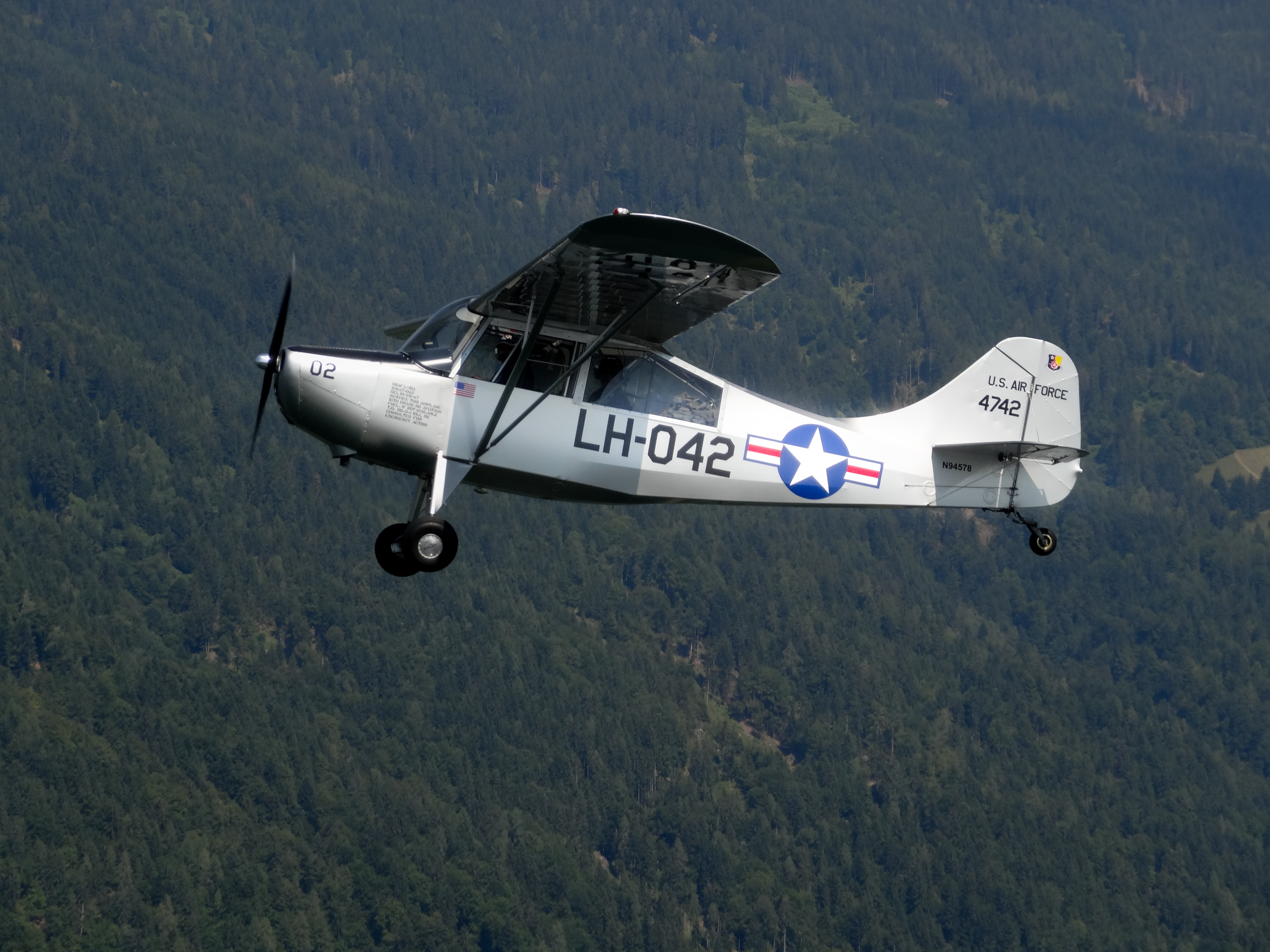 Aircraft (Light Aircraft) Aeronca L-16 7BCM at the airfield of Feldkirchen in Carinthia / Austria / EU. This fully restored[2] 1947 built aircraft was a liaison aircraft for the US Army, as they were mainly used in the Korean War. It is a militarized version of the Aeronca Champion.